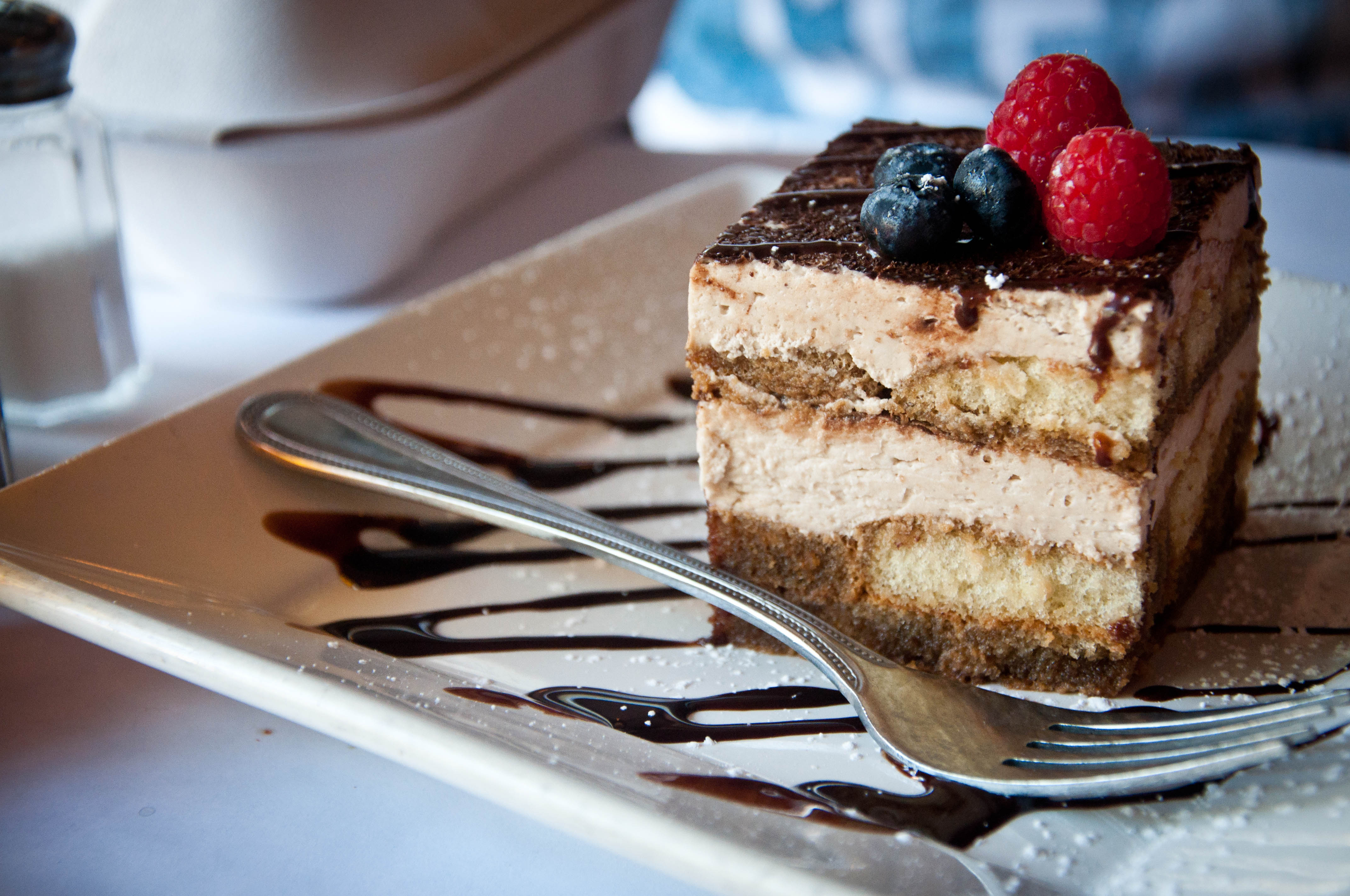 Tiramisu with blueberries and raspberries. Tutto Pasta's Restaurant Week